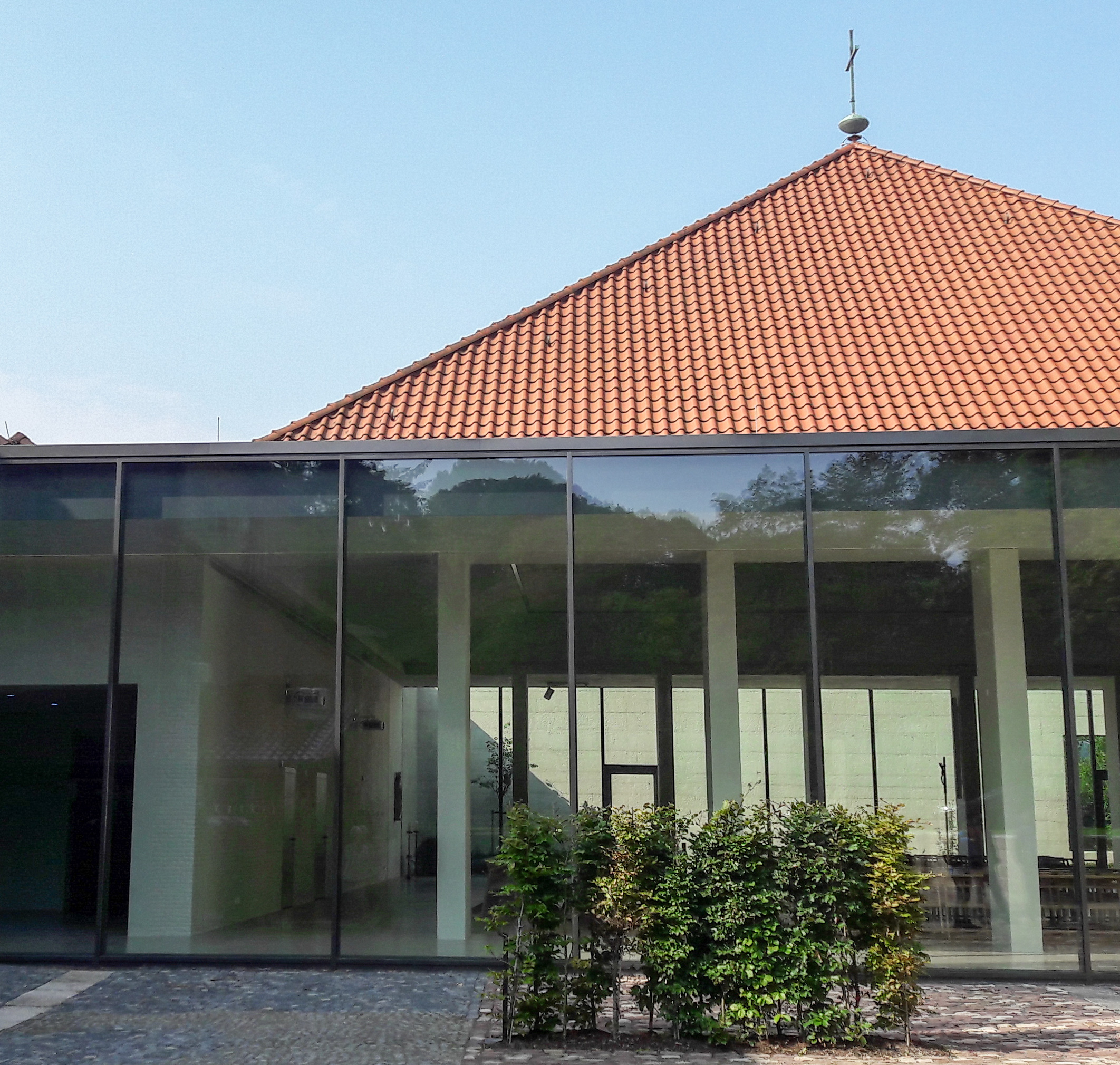 Church after rebuild 2015-2017